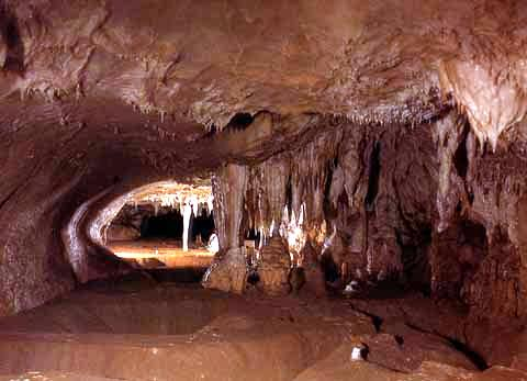 Rajko's cave in Eastern Serbia (took the photo in 2004)